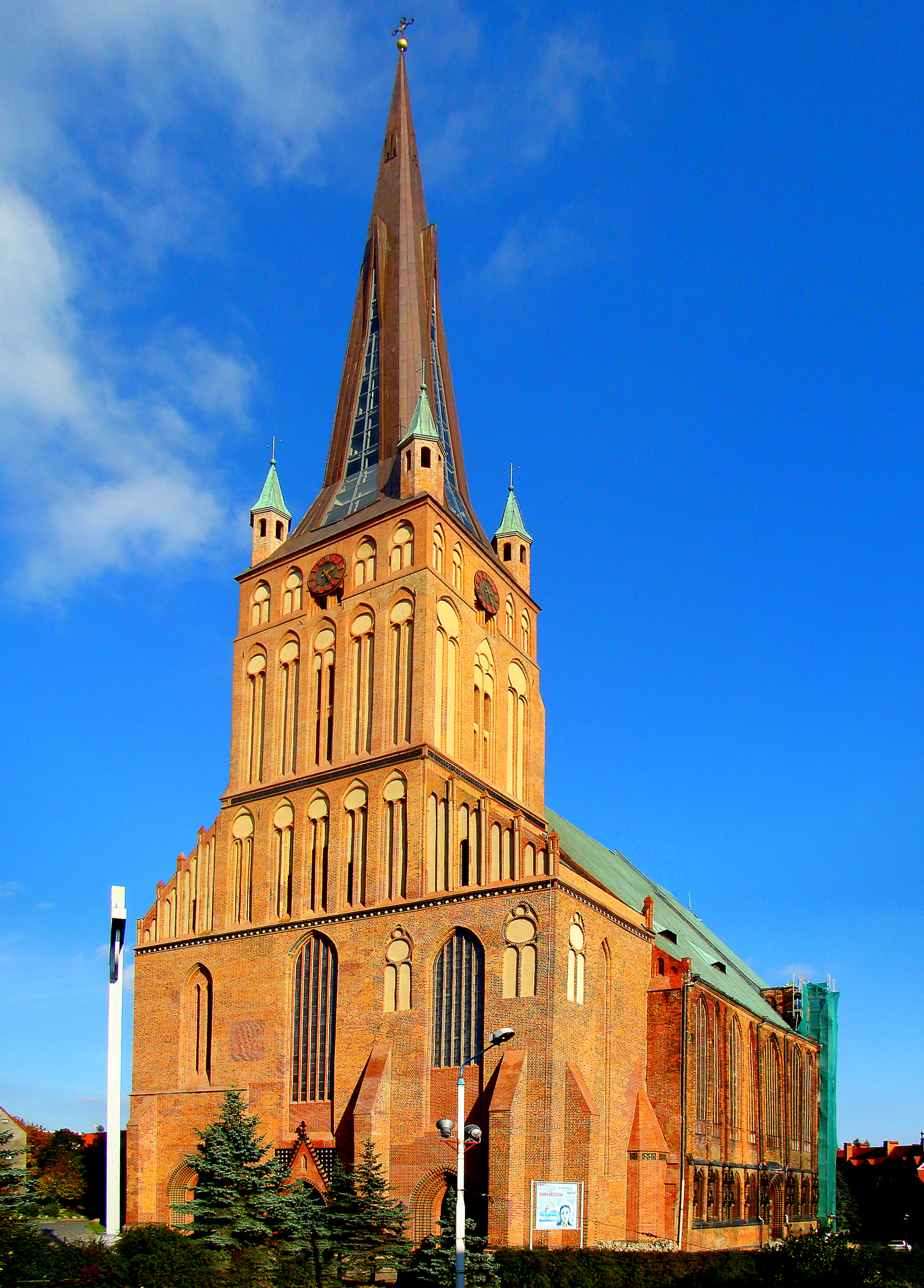 Cathedral Basilica of St. James the Apostle, Szczecin, Poland